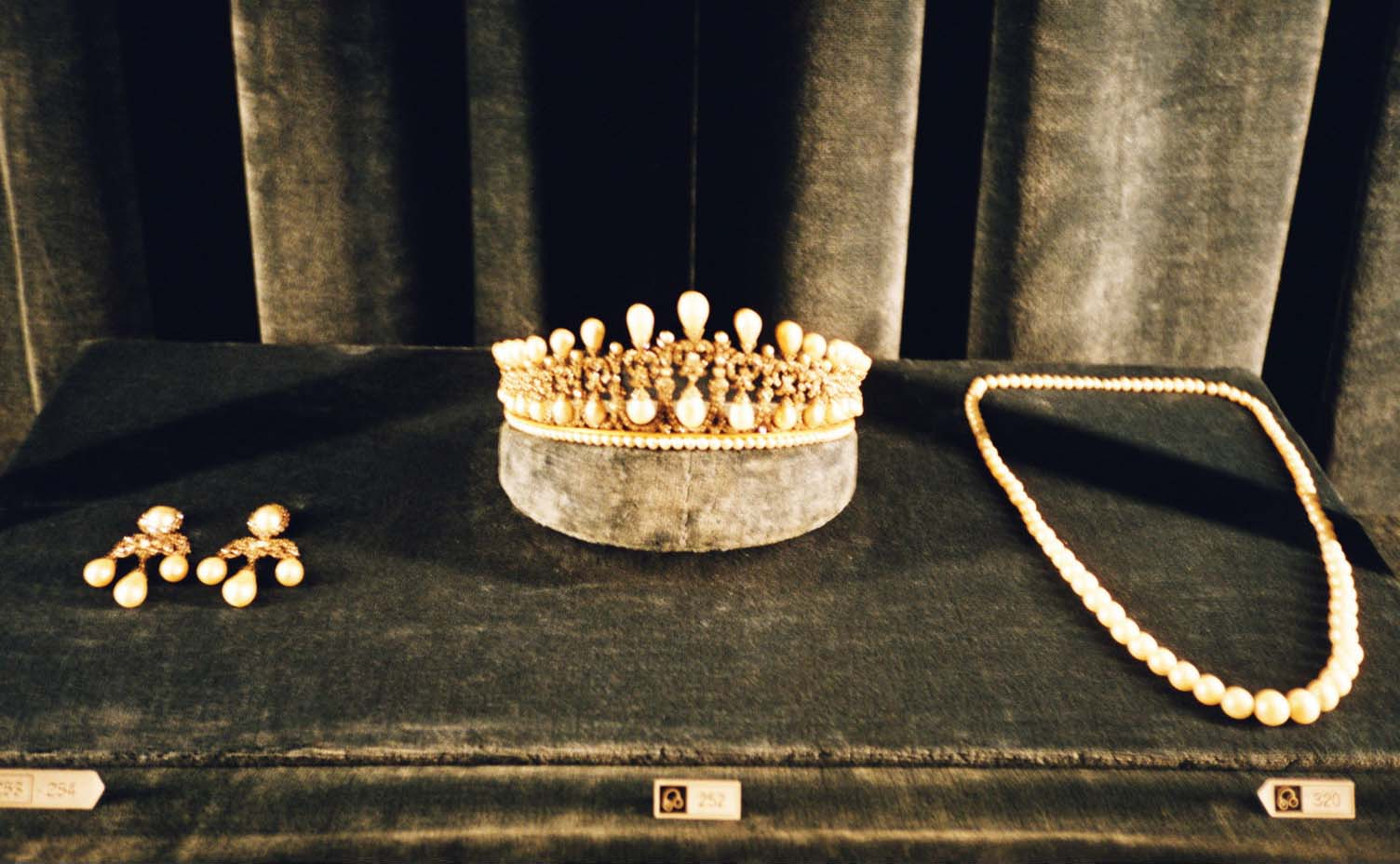 Pearl-diadem of the Bavarian Queen, Residenz Munich